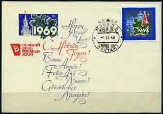 First USSR official First Day Cover with a New Year stamp, 1 December 1968. Catalogue: Mi. 3571.